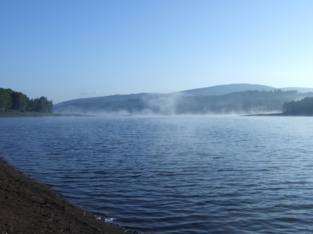 Vlasina Lake, in the morning, south-east Serbia